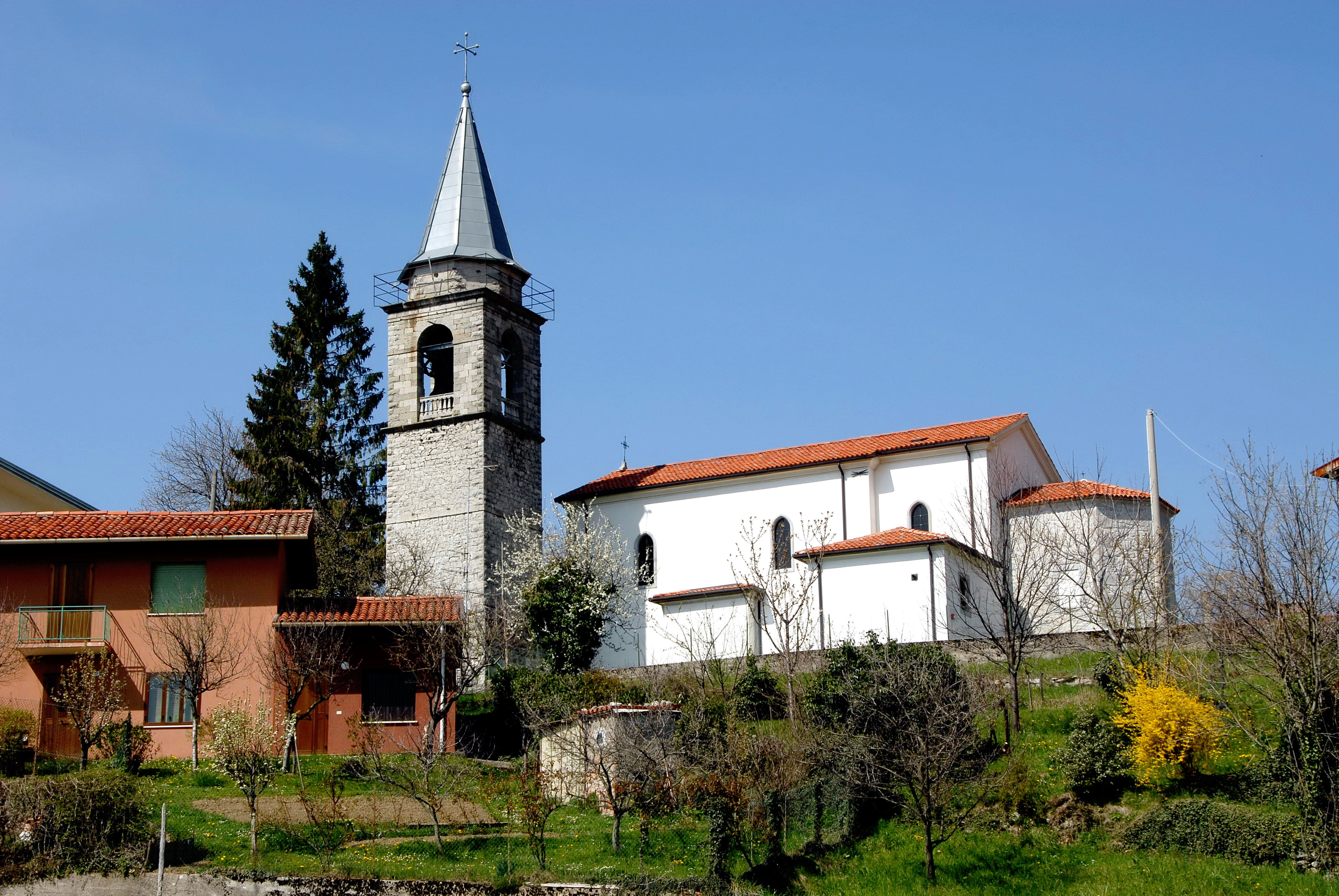 Mountain village Porzus in the community of Attimis, Friuli, Italy